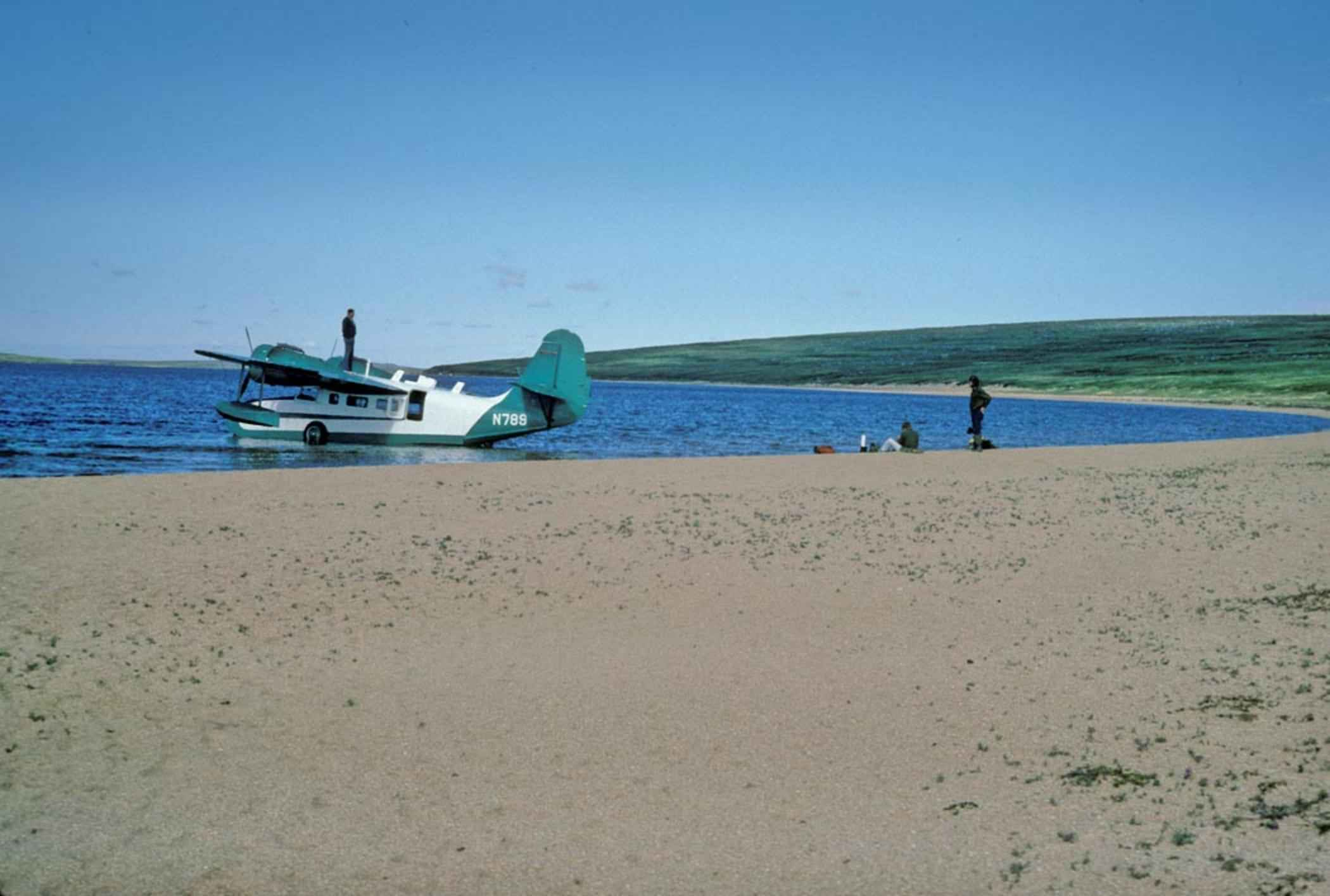 Image title: Loading off from float plane to coast (USFWS Grumman Goose Airplane on Imuruk Lake) Image from Public domain images website